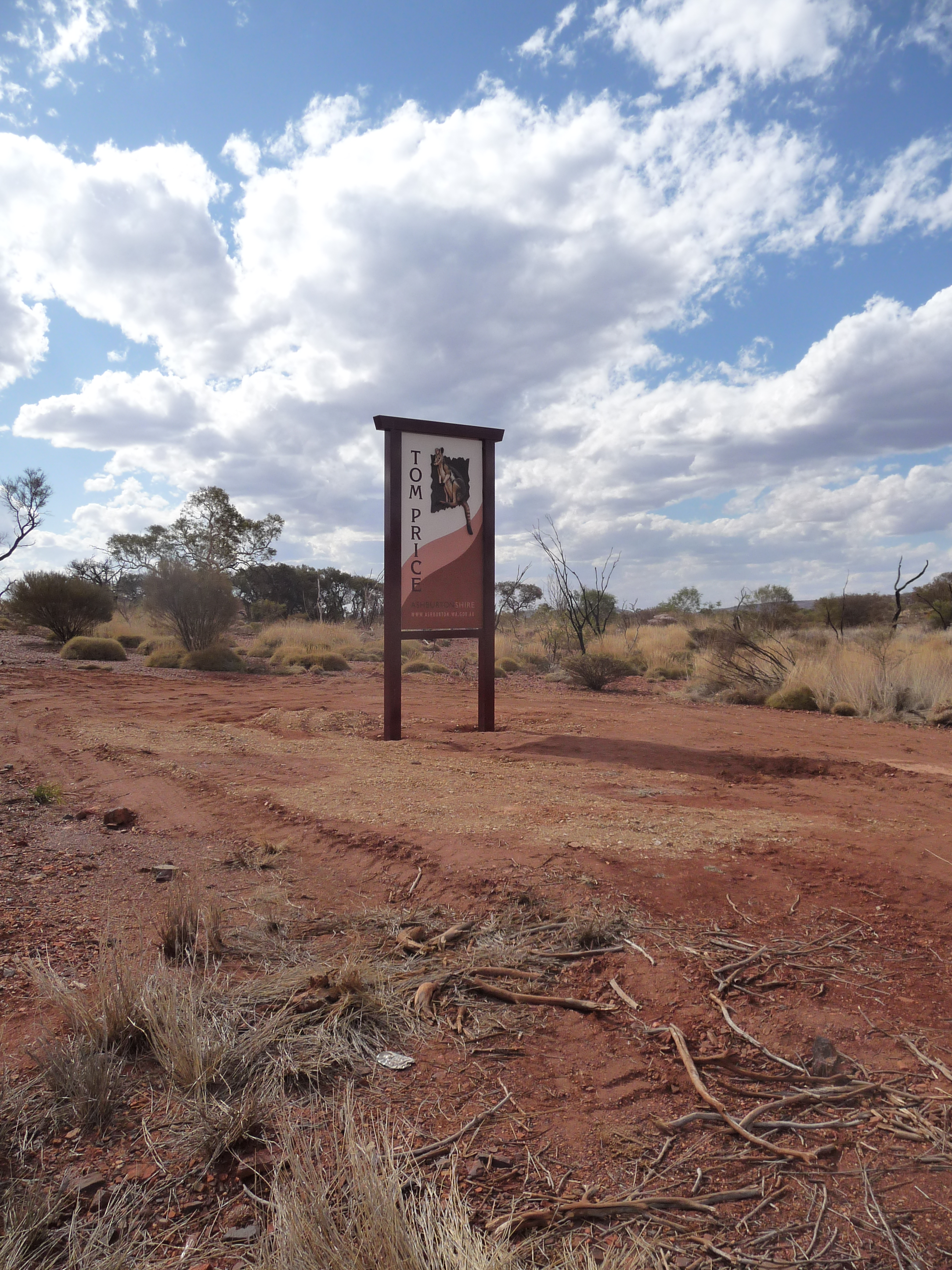 Town Sign in Tom Price, Western Australia